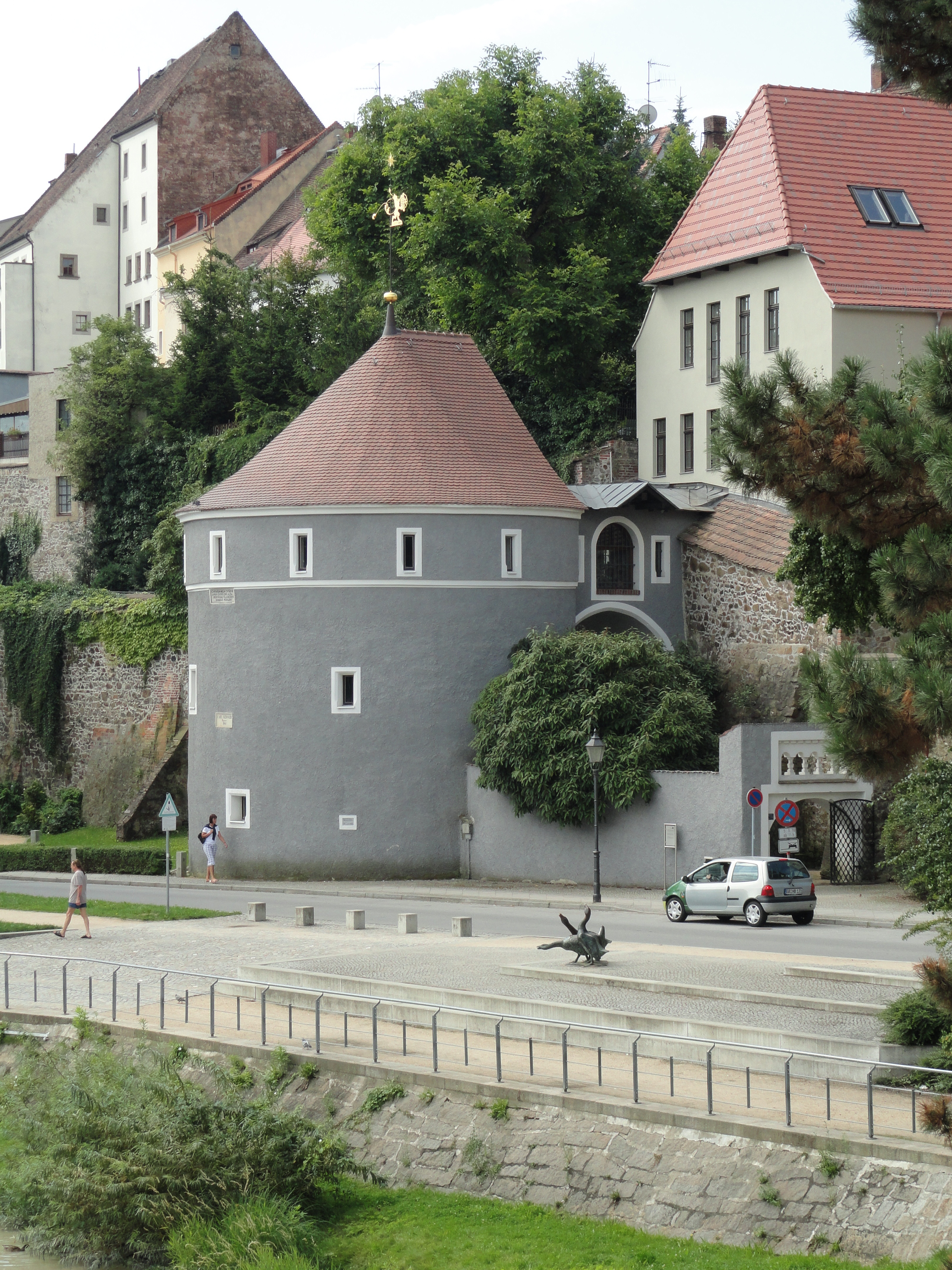 Entree to the gardens of the former city wall area Ochsenbastei, Görlitz, Saxony